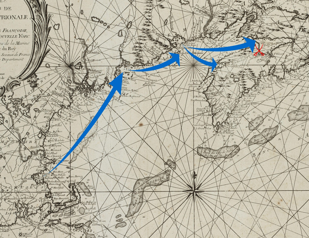 Detail from an 18th century map annotated to show the movements of Benjamin Church's 1704 expedition against French Acadia, up to the Raid on Grand Pré (swords in red).